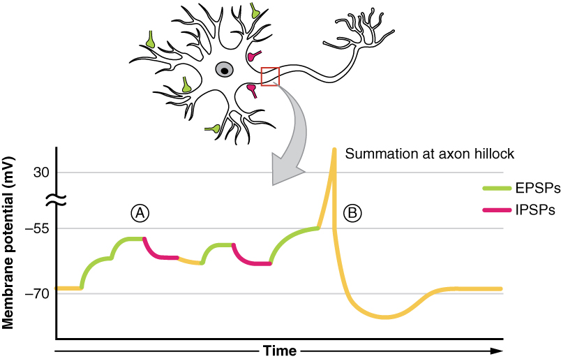 Version 8.25 from the Textbook OpenStax Anatomy and Physiology Published May 18, 2016